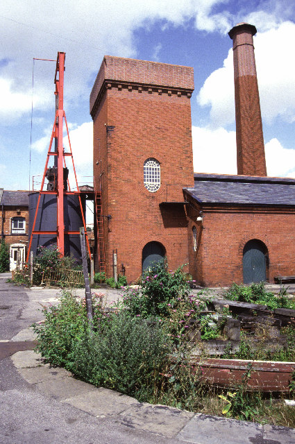 Hydraulic pumping station, Underfall Yard, Bristol Docks; Power for sluices and lock gates etc was provided by water under pressure from this pumping station.